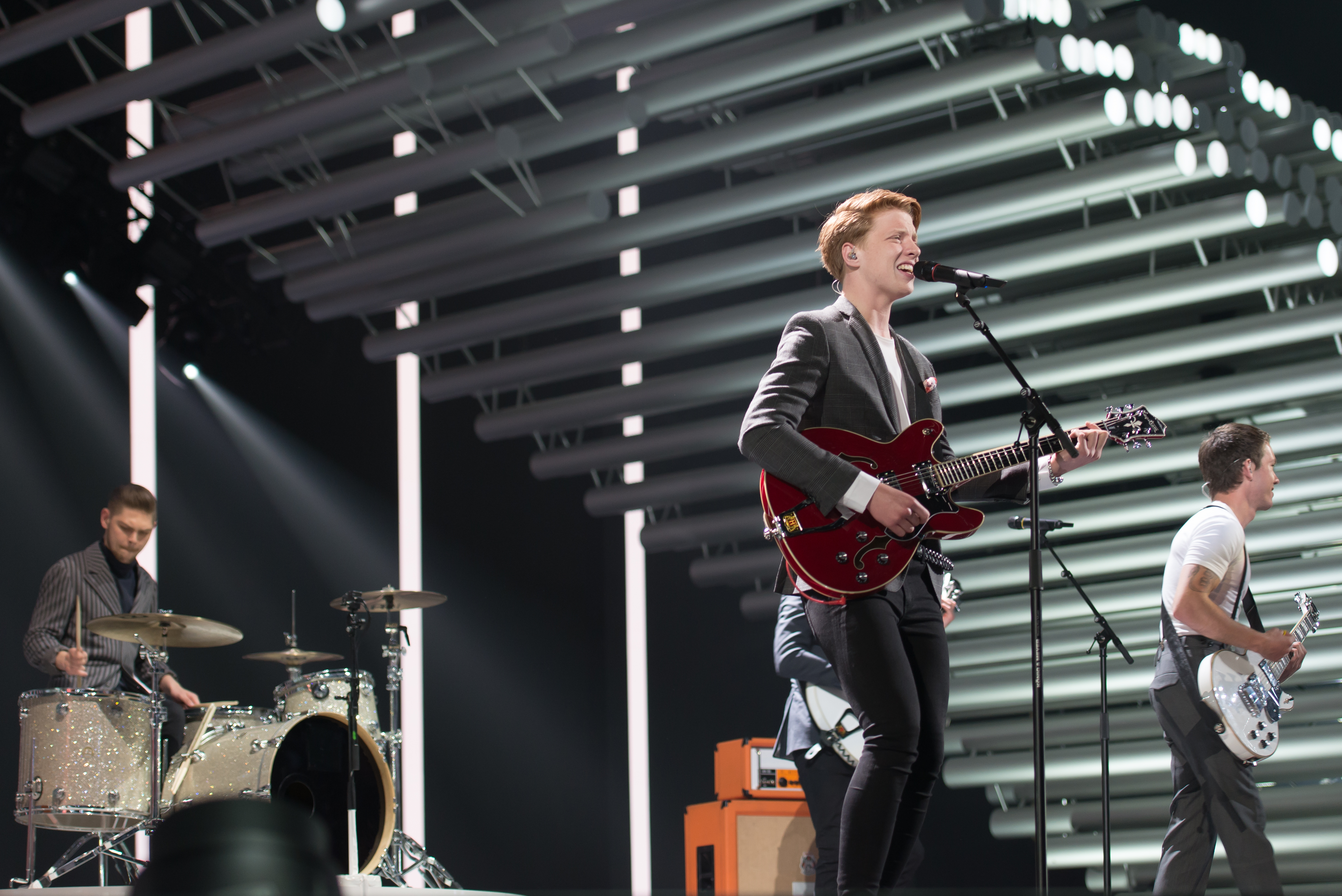 Eurovision Song Contest Vienna 2015: Anti Social Media, Denmark